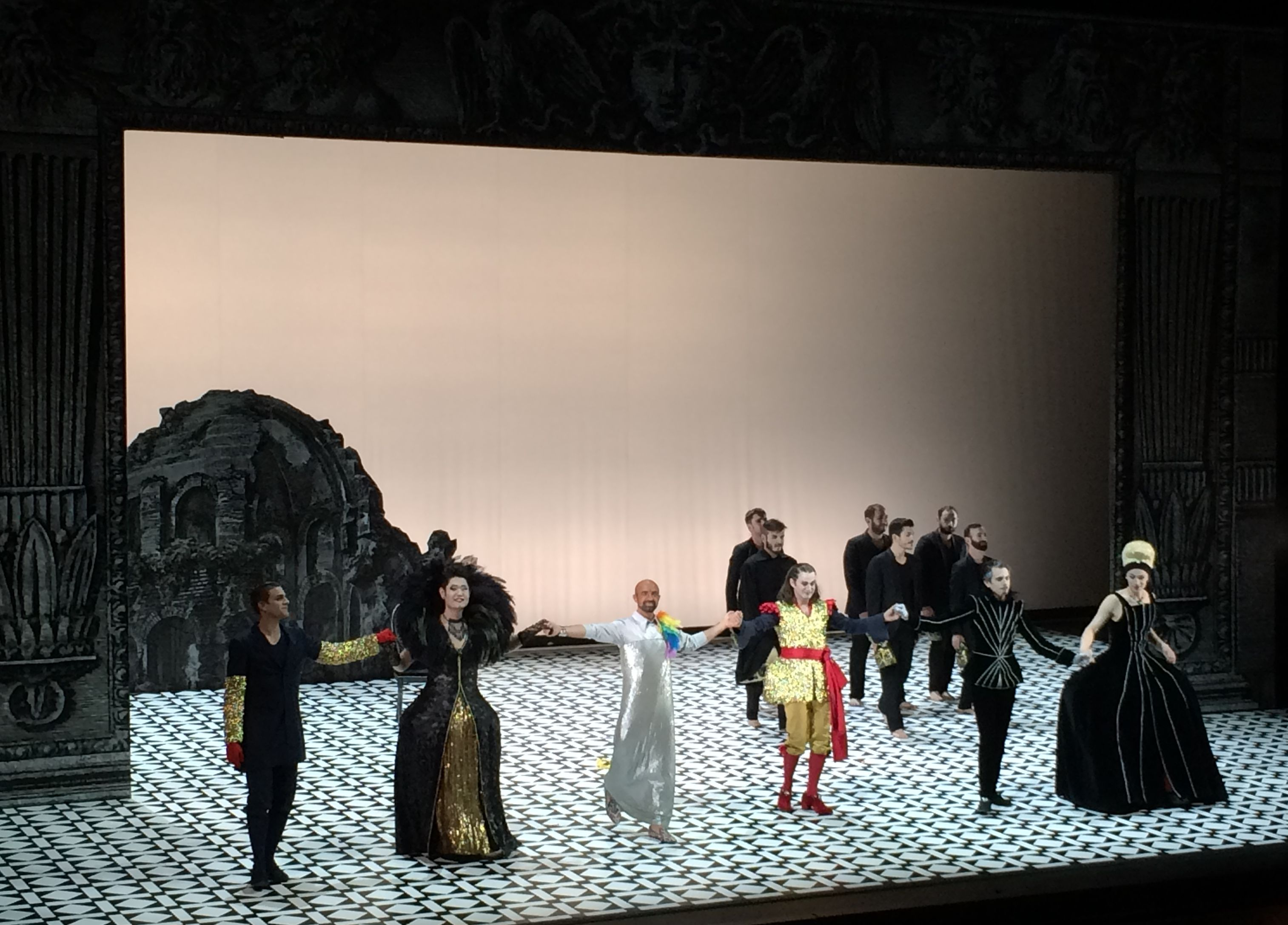 Catone in Utica (Max Emanuel Cencic, Franco Fagioli, Juan Sancho, Valer Sabadus, Vince Yi, Martin Mitterrutzner / Il Pomo D'oro cond. Riccardo Minasi)